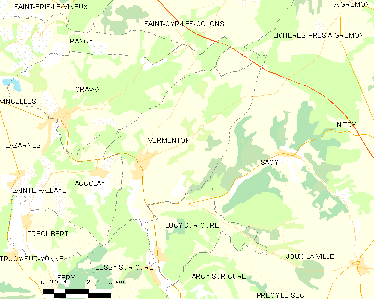 Map of French municipality Vermenton